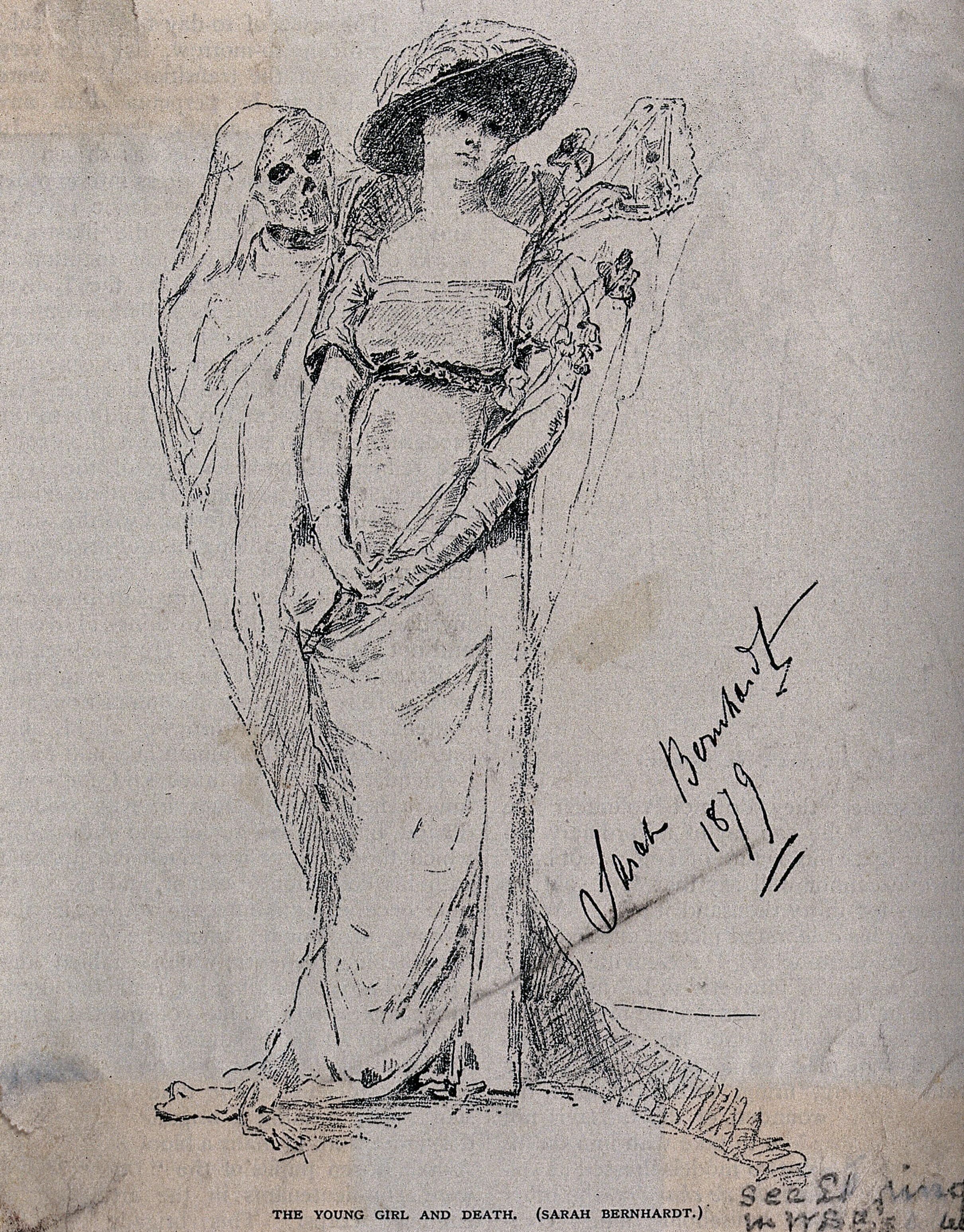 The young girl and Death. Lithograph by Sarah Bernhardt, 1879. Iconographic Collections Keywords: Sarah Bernhardt